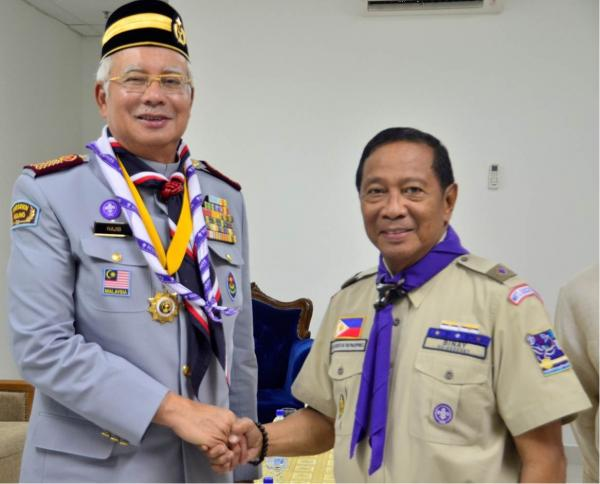 Vice President Jejomar C. Binay paid a courtesy call on Malaysian Prime Minister Dato Seri Najib Tun Razak during the the opening of the World Scout Bureau offices in Kuala Lumpur last June 18, 2014.